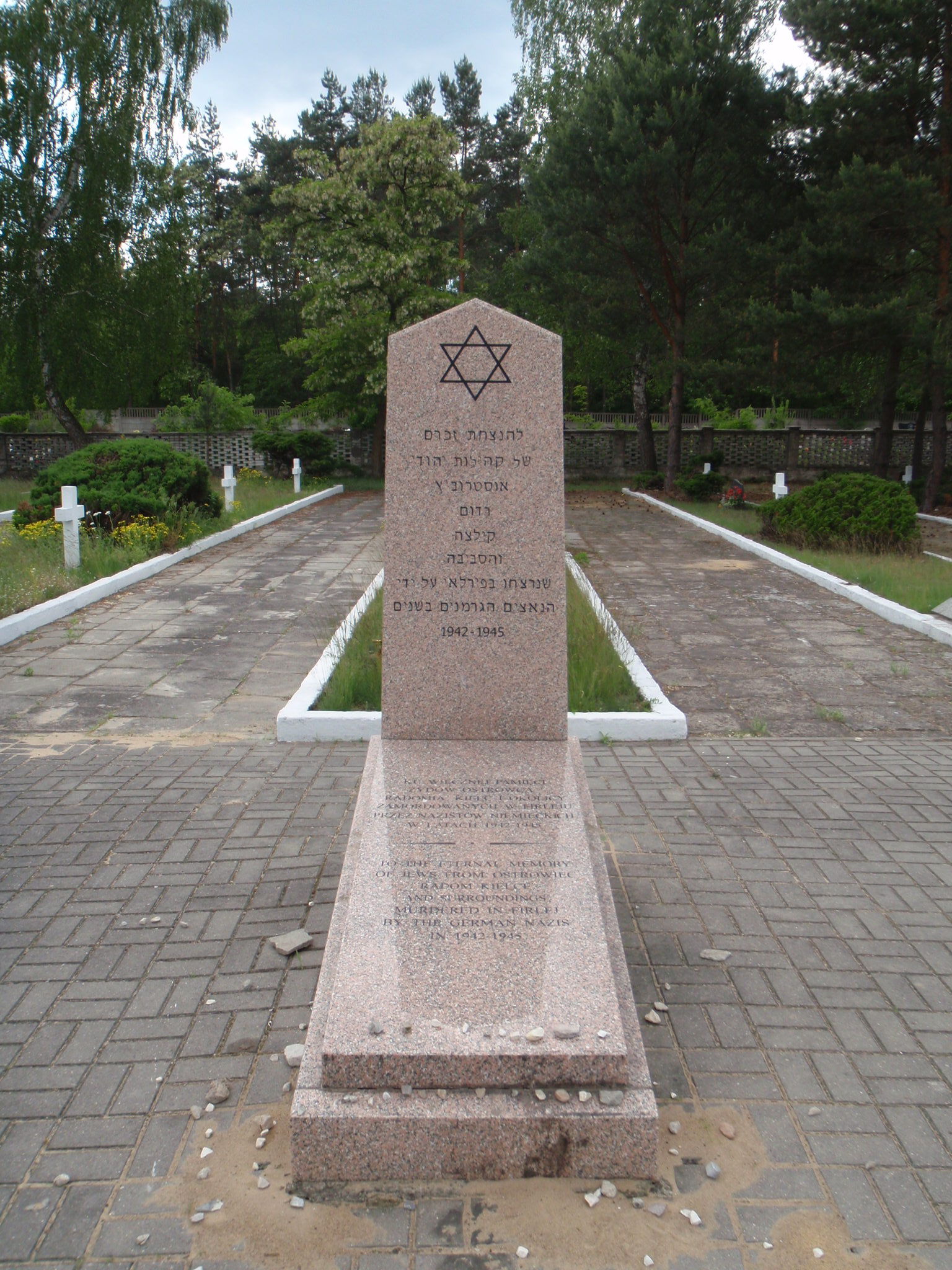 Communal cemetery in Radom - monument commemorating Jewish citizens of Radom, Kielce and Ostrowiec Świętokrzyski and neighbourhoods killed by Germans in Firlej (now part of Radom)